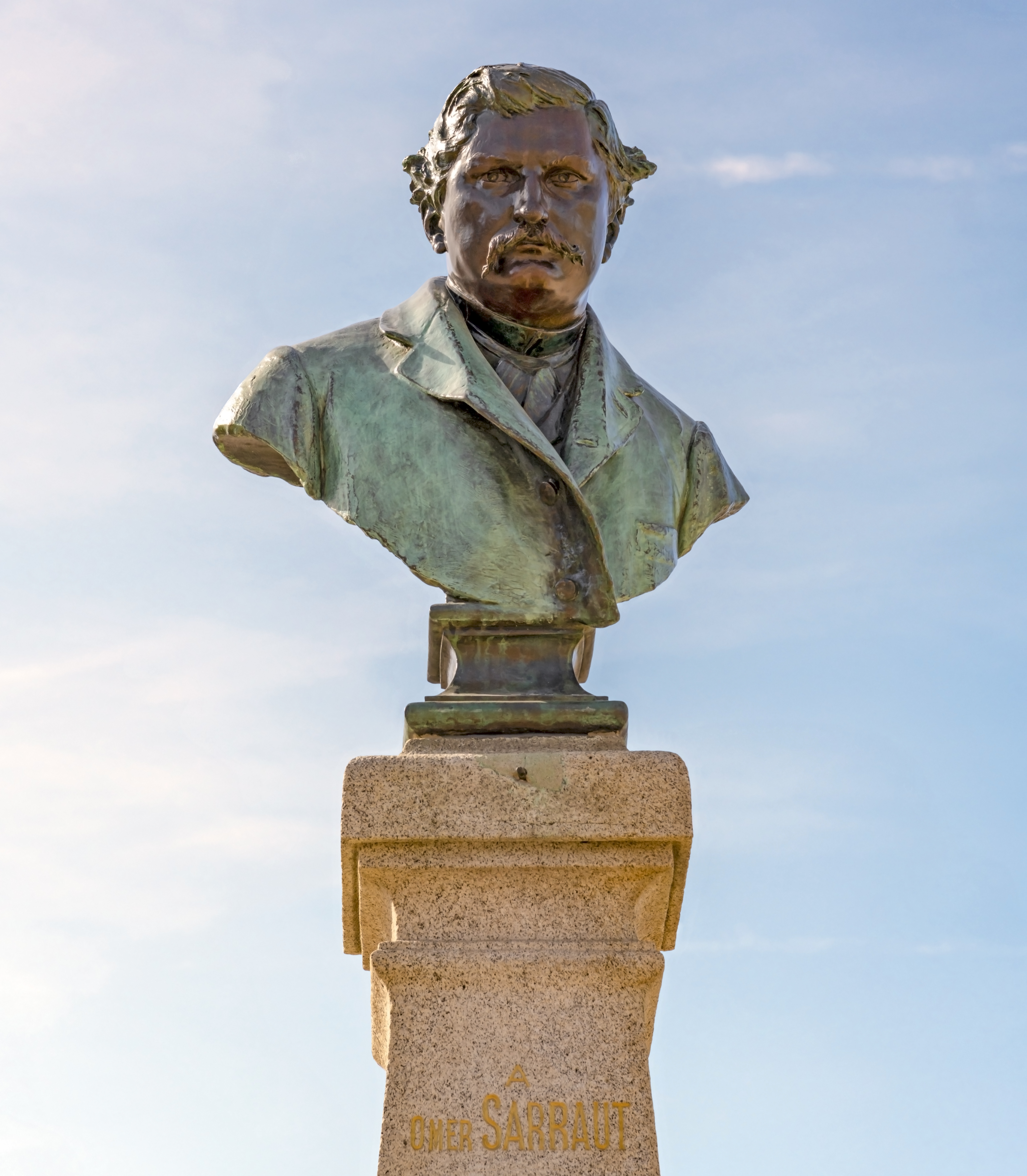 Monument to Omer Sarraut by Paul Ducuing 1905, square André Chénier